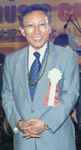 President at Kansai Telecasting Corporation Soichiro Chigusa.